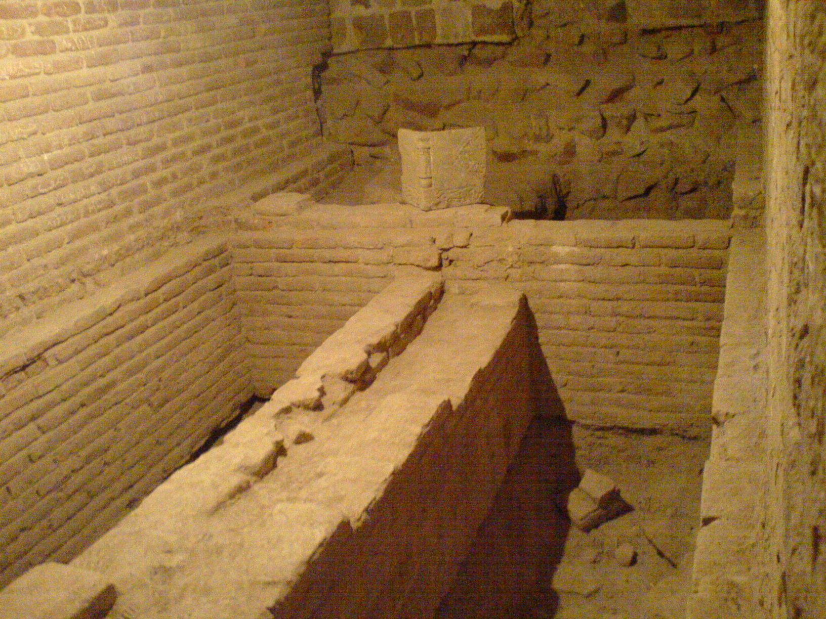 Thumb of Jahan Shah and his daughter.